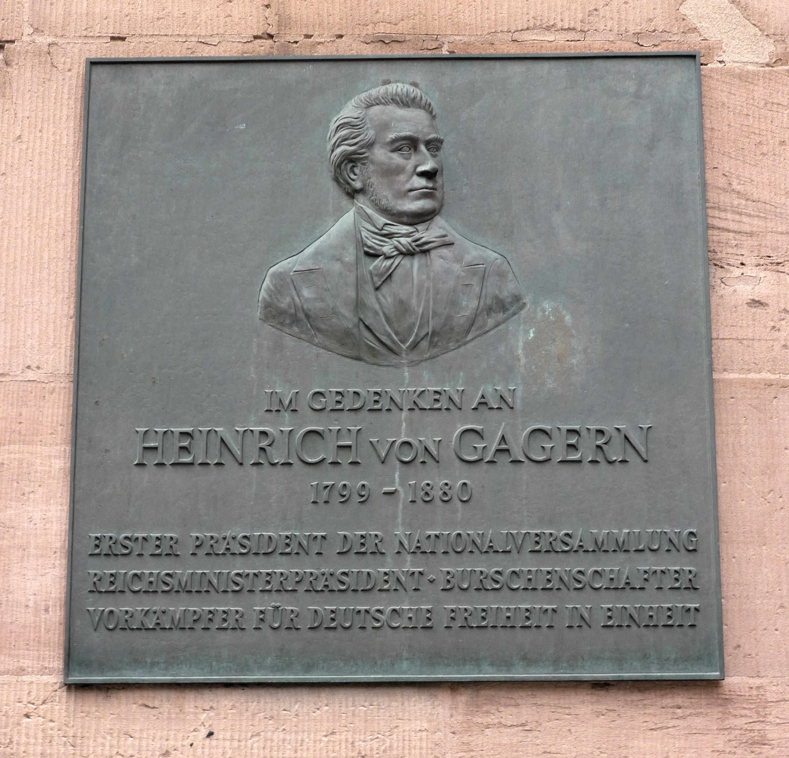 Frankfurt/M., Germany: Plaque commemorating Heinrich von Gagern